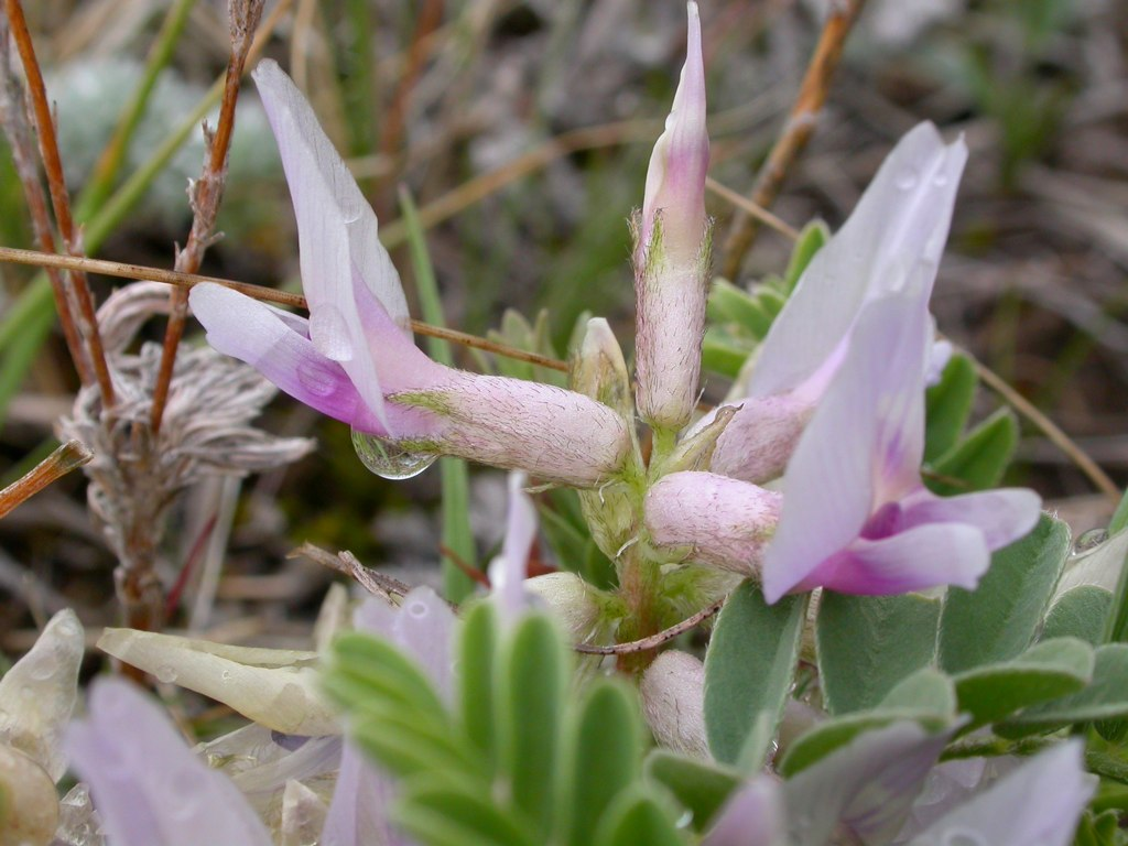 The tubular calyx bears scattered black hairs.